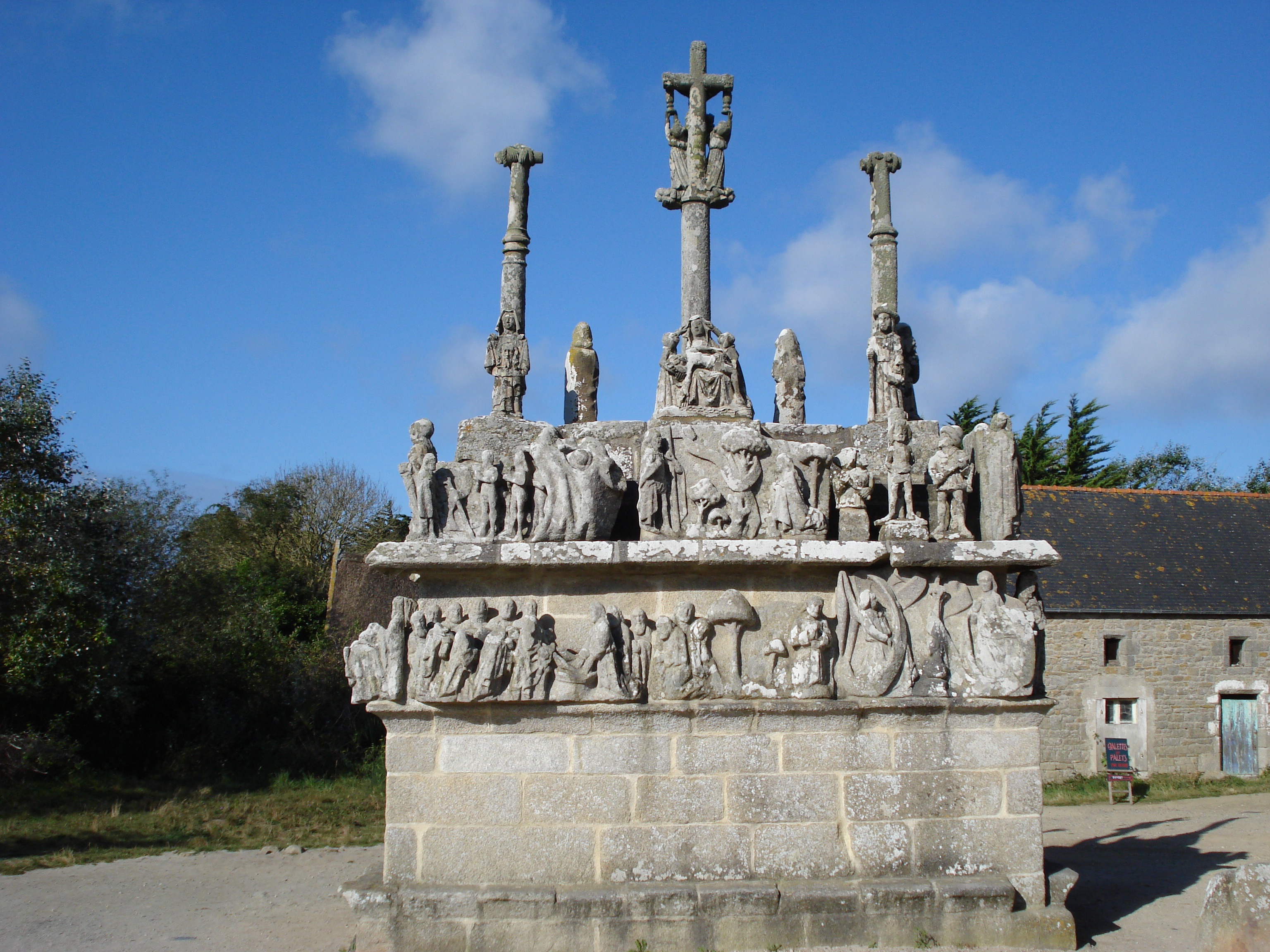 Calvaire de Tronoën, vue d'ensemble